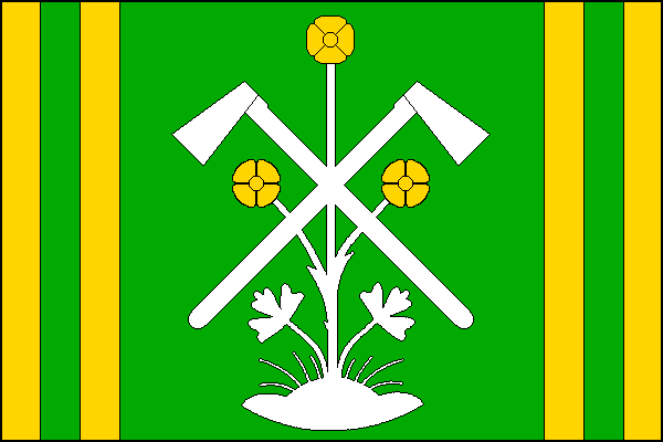 Municipal flag of Olomučany village, Blansko District, Czech Republic.